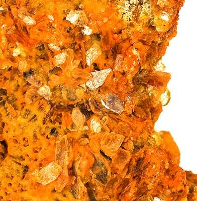 Copiapite Locality: Alcaparrosa Mine, Cerritos Bayos, Calama, El Loa Province, Antofagasta Region, Chile (Locality at ) Size: 11.9 x 7.4 x 4.0 cm. Sharp, lustrous, mica-like crystals of copiapite in unusually large sizes to 8mm, richly decorate this large matrix specimen. Ex. Philadelphia Academy of Sciences Collection.